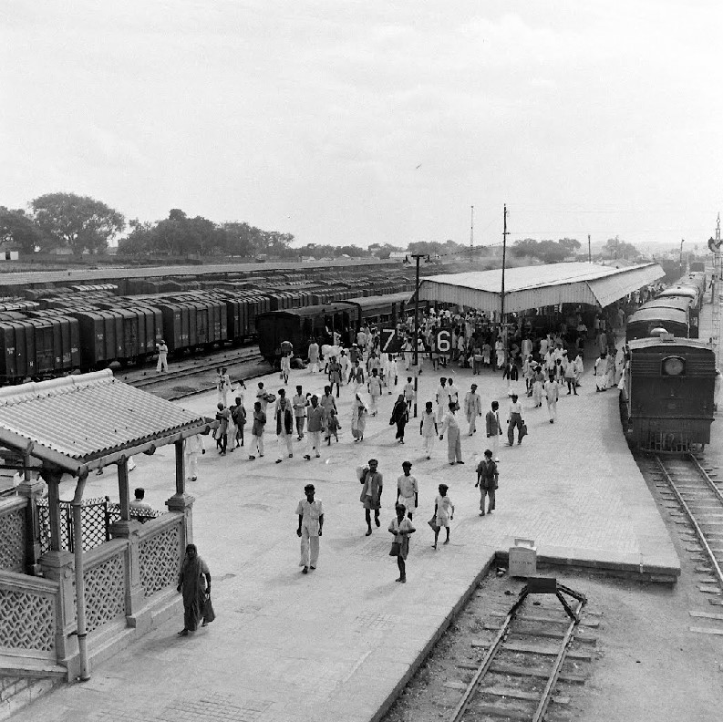 The 1948 photo of Secunderabad Railway Station.